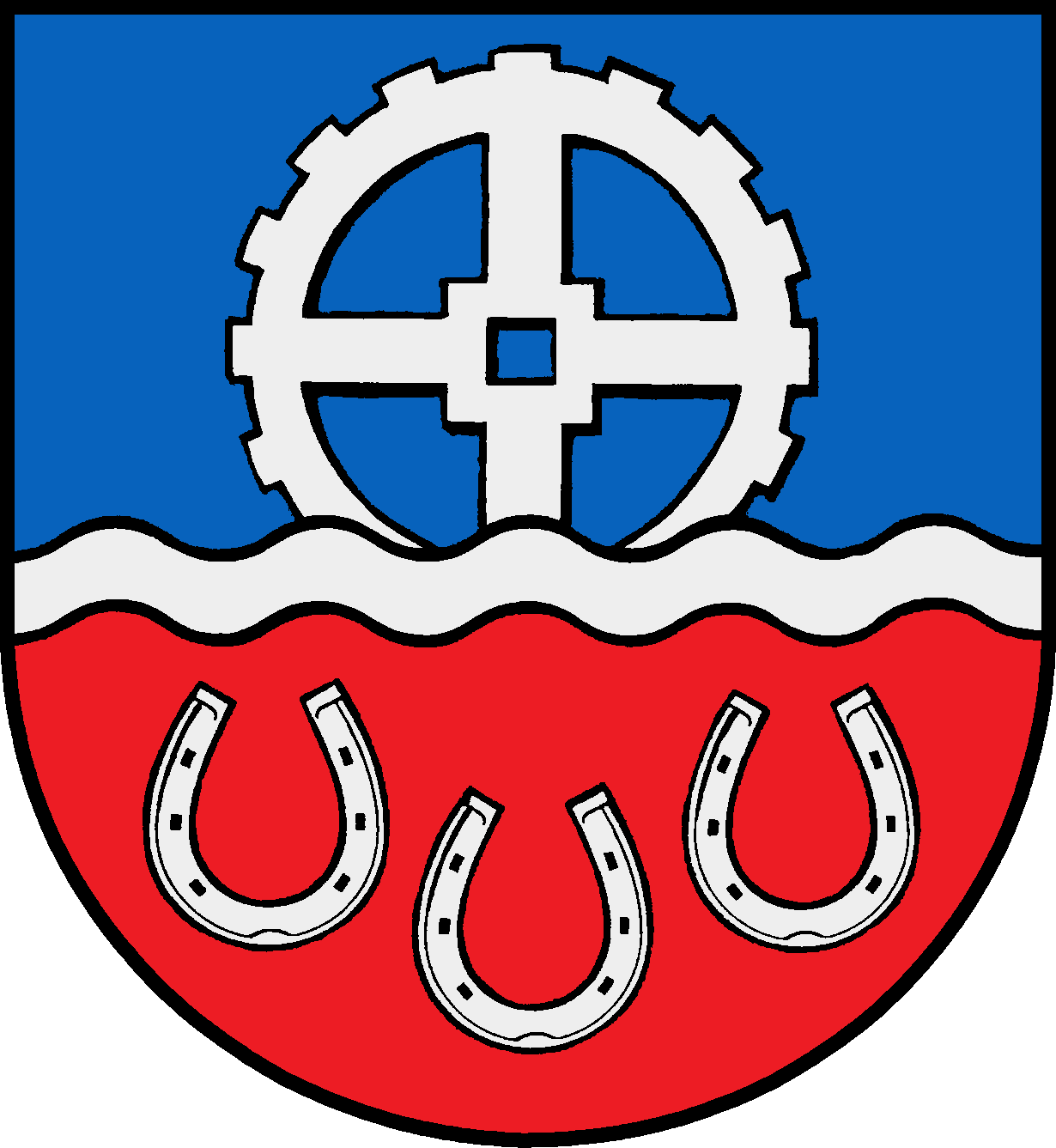 Coat of arms of the municipality Helmstorf in Schleswig-Holstein, Germany.